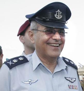 October 26, 2006. Then-Chief of the General Staff, Lieutenant General Dan Halutz. * הרמטכ"ל רא"ל דן חלוץ .